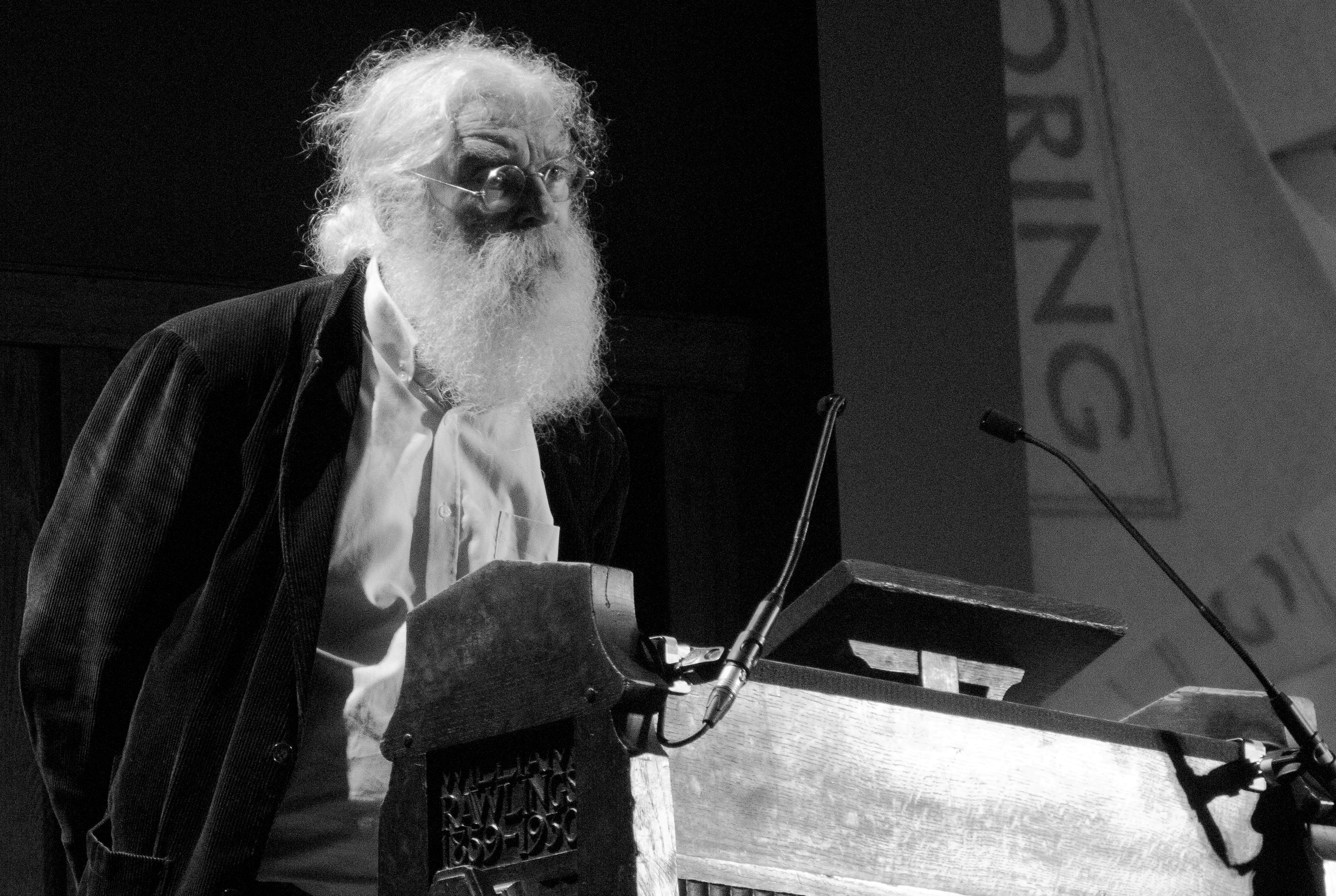 Irving Finkel in 2015